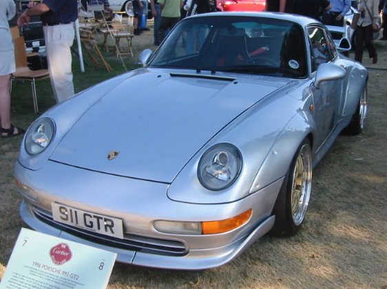 Photograph of the front of a Porsche 911 (993 series) GT2 at the 2003 Goodwood Festival of Speed.